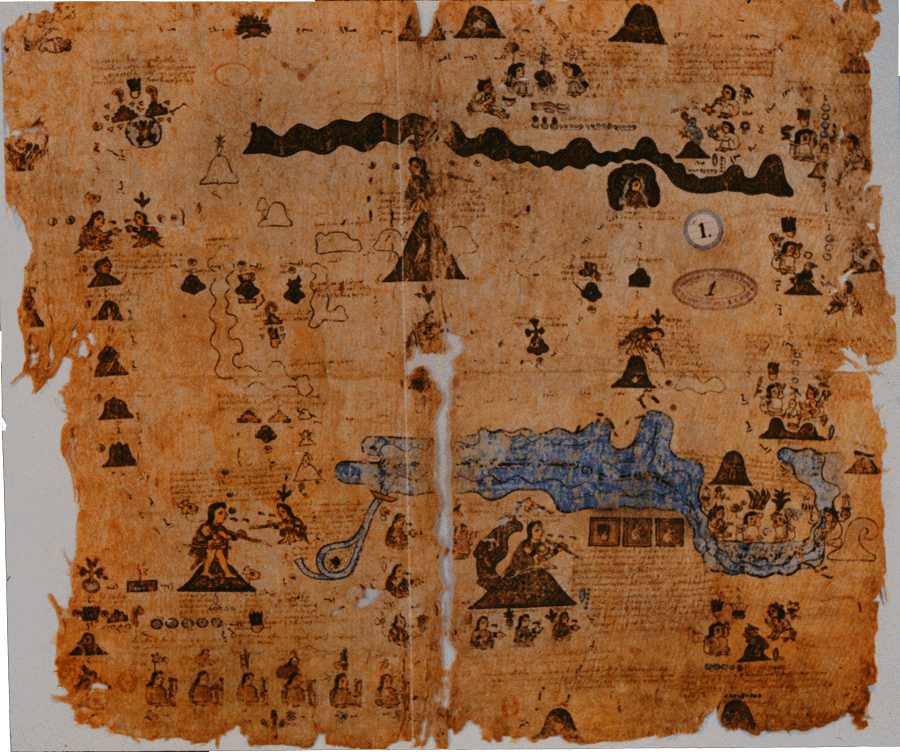 This is a map of the Basin of Mexico